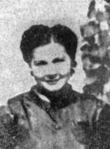 Zorka Regancin-Dolničar – Ruška, Marija (1921 — 1944), Slovene partisan